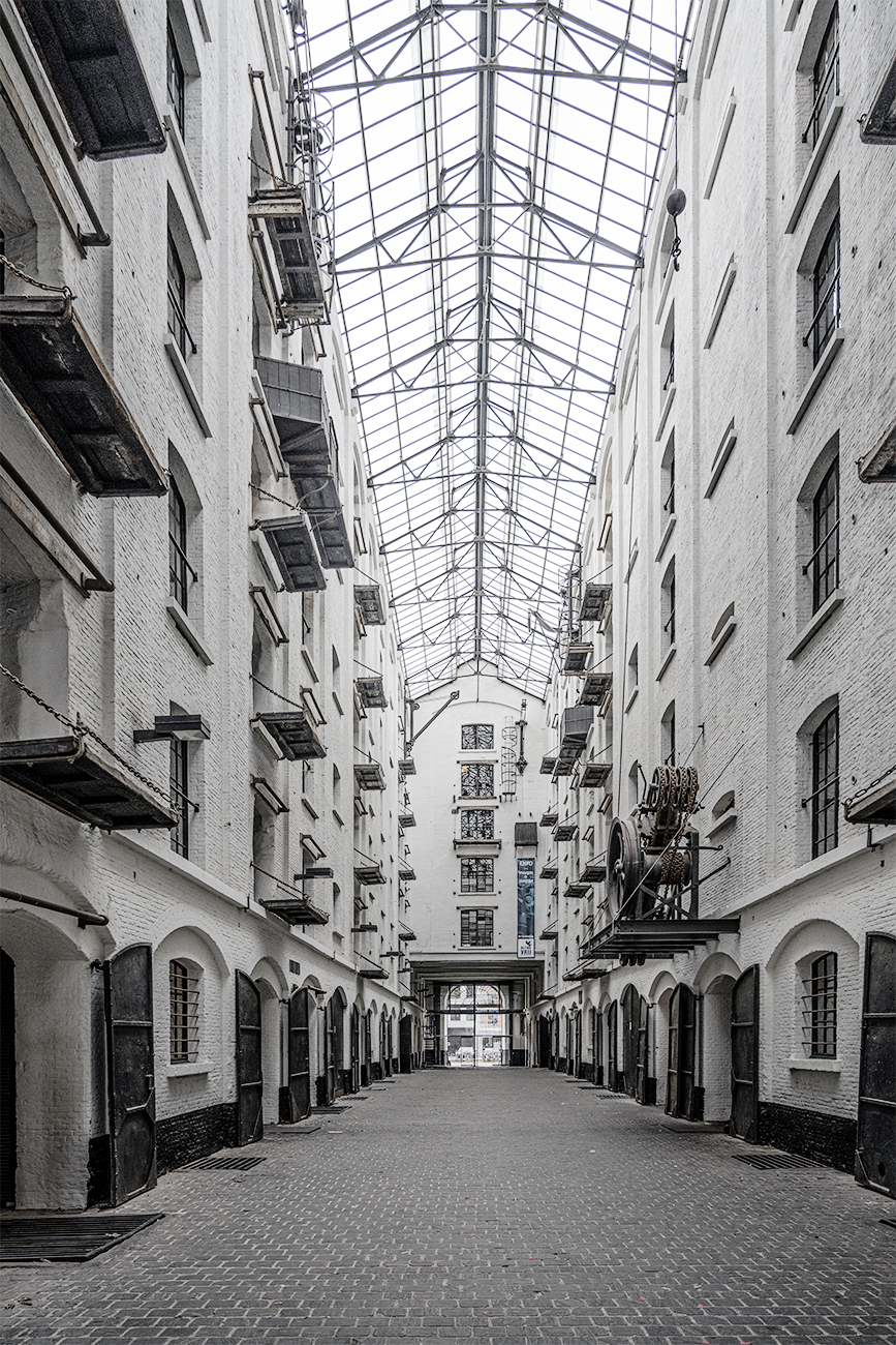 Felix Pakhuis, Antwerpen Deitsch: Felix Pakhuis, Antwerpen